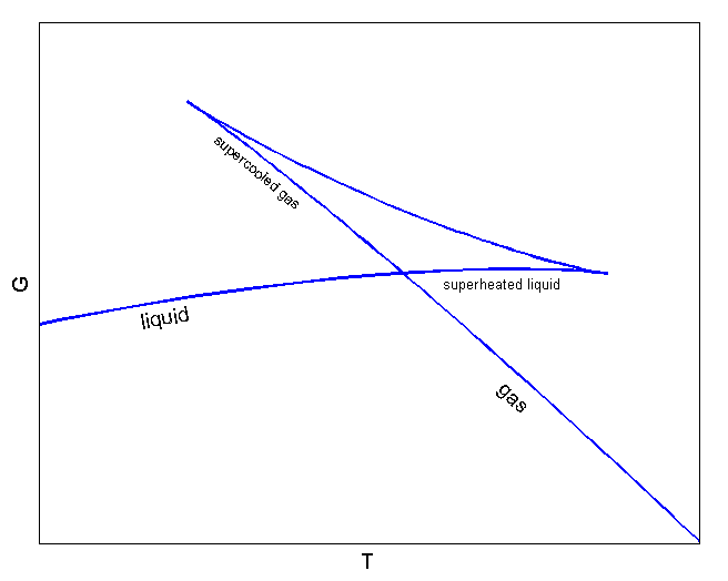 Gibbs free energy of the Van der Waals gas, vs. temperature. created by Eman using MATLAB